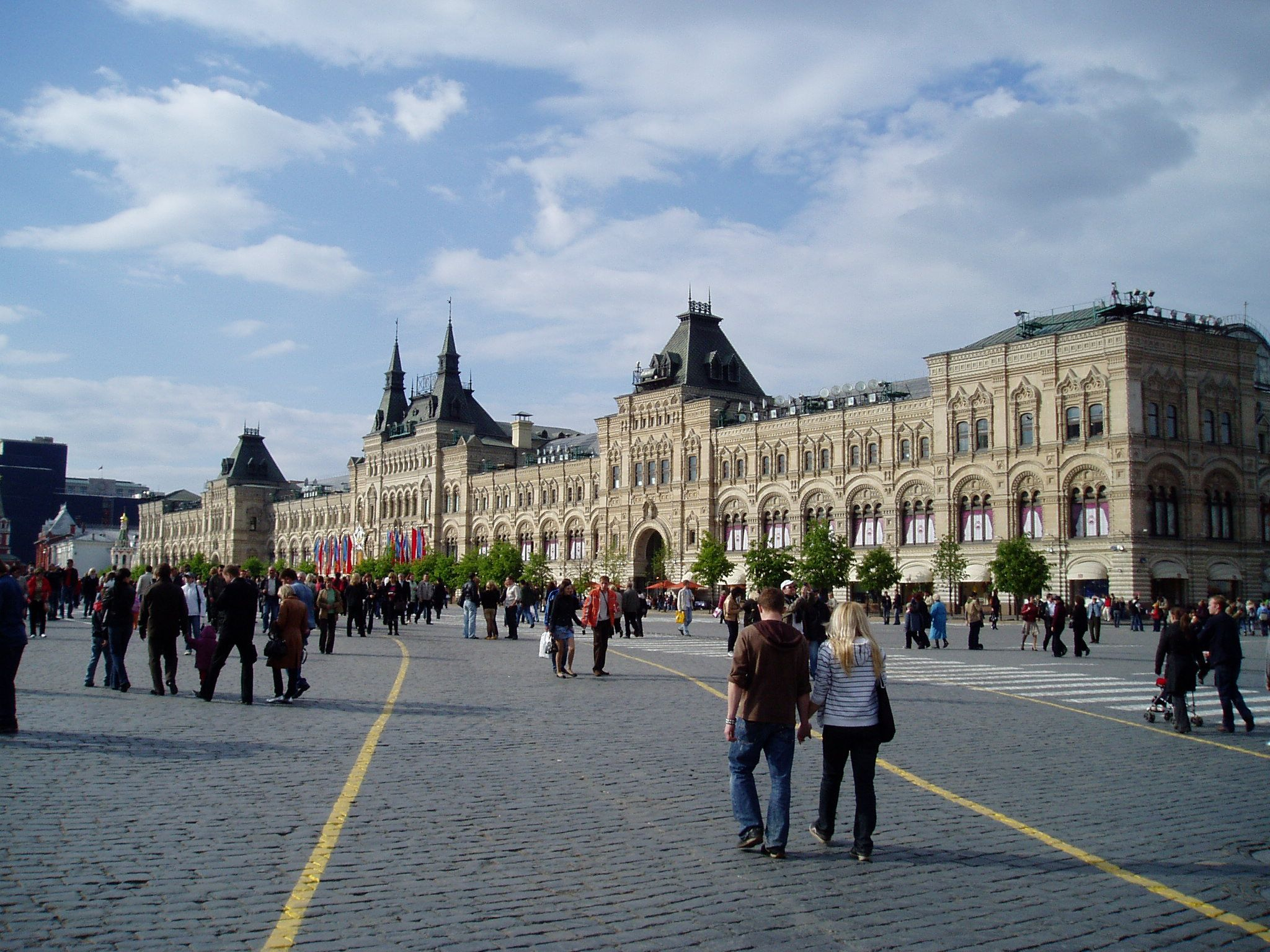 Moscow GUM Department Store